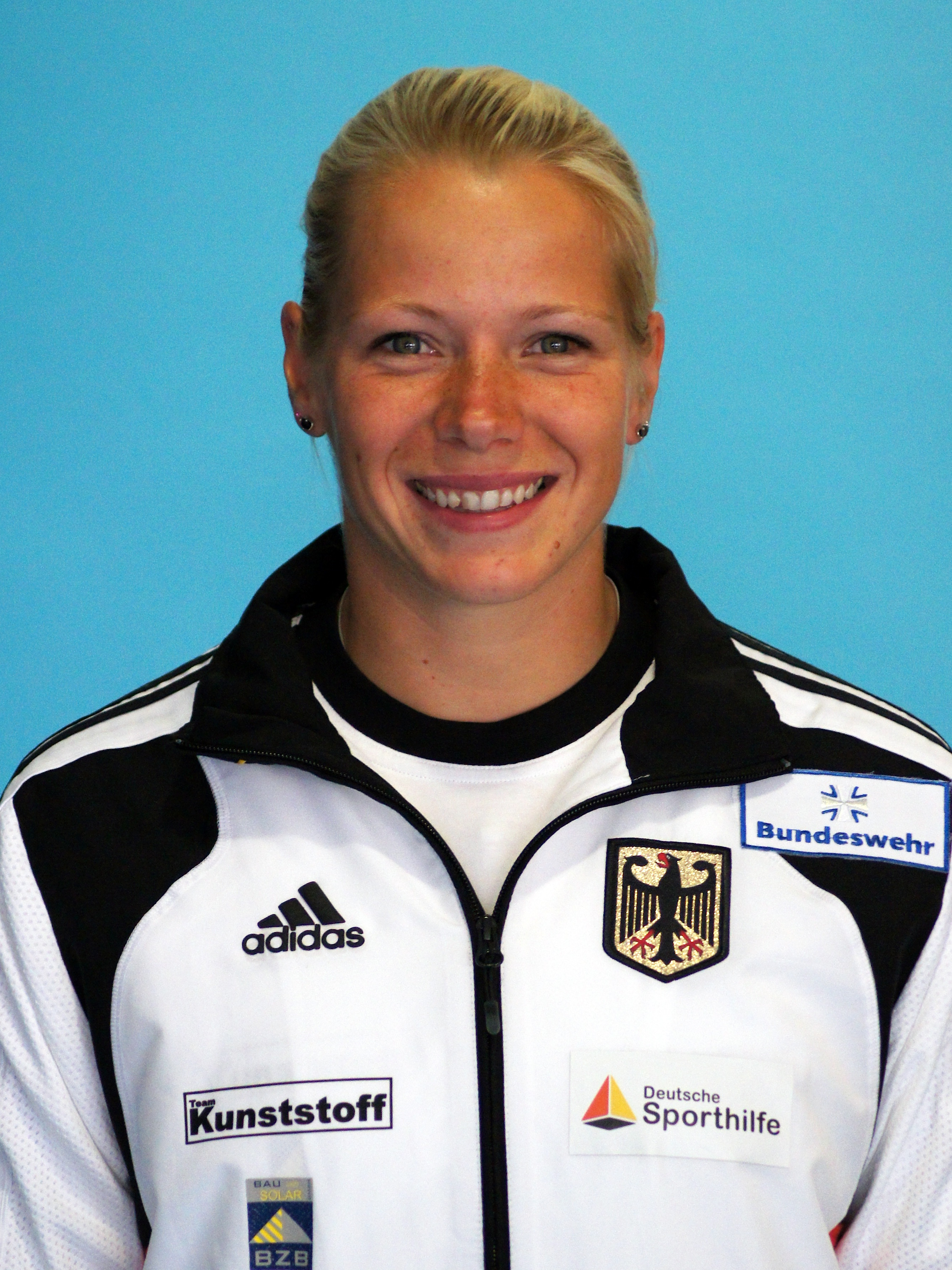 Olympic Goldmedalist 2012 Canoe-Sprint (Bild: O.Strubel)